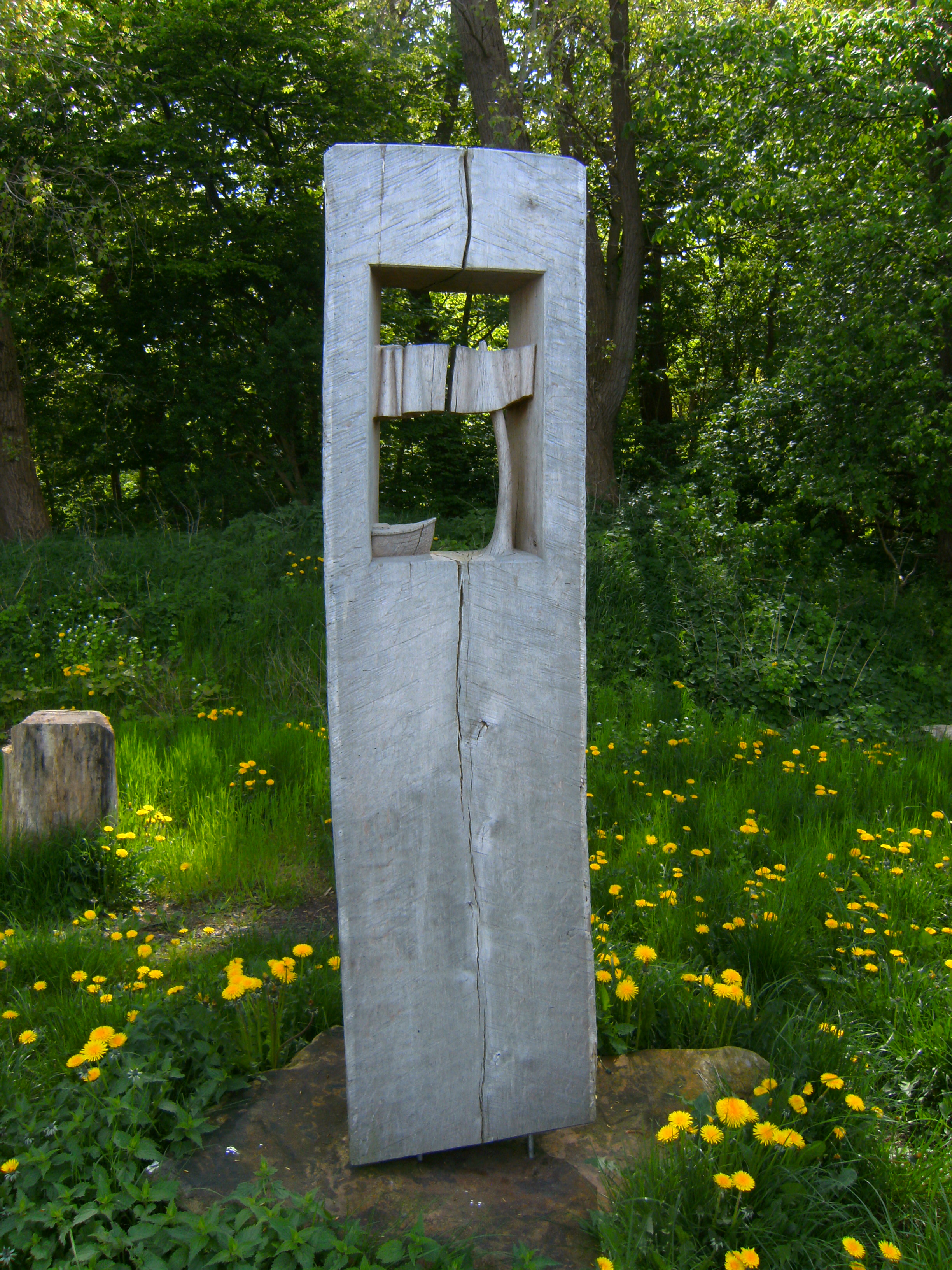 Travemünde, Priwall, Germany: Street Am Priwallhafen. Skulptur aus Duckdalben (piles): Frontier 1.